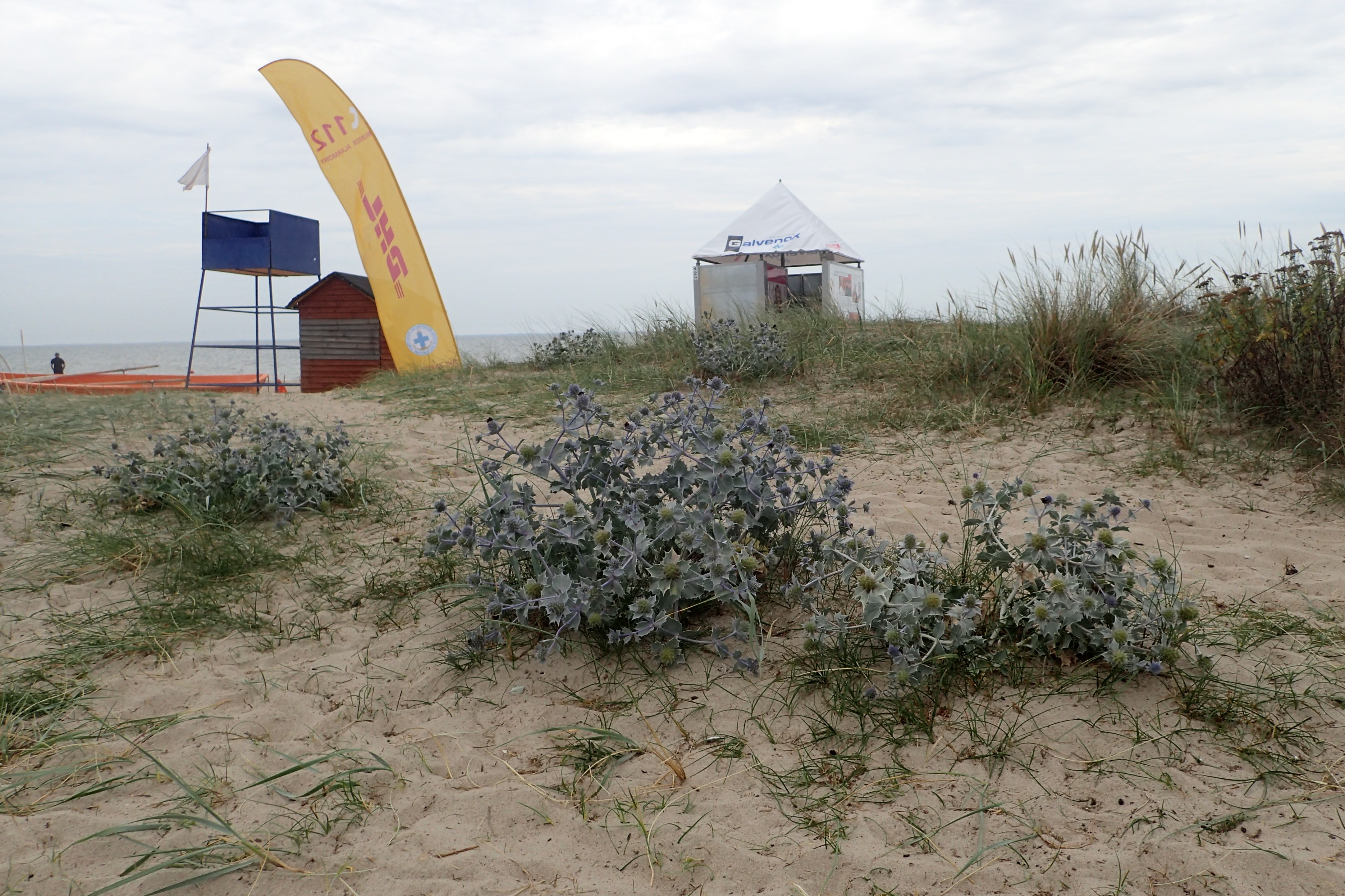 Eryngium maritimum in Darłowo on Baltic See.